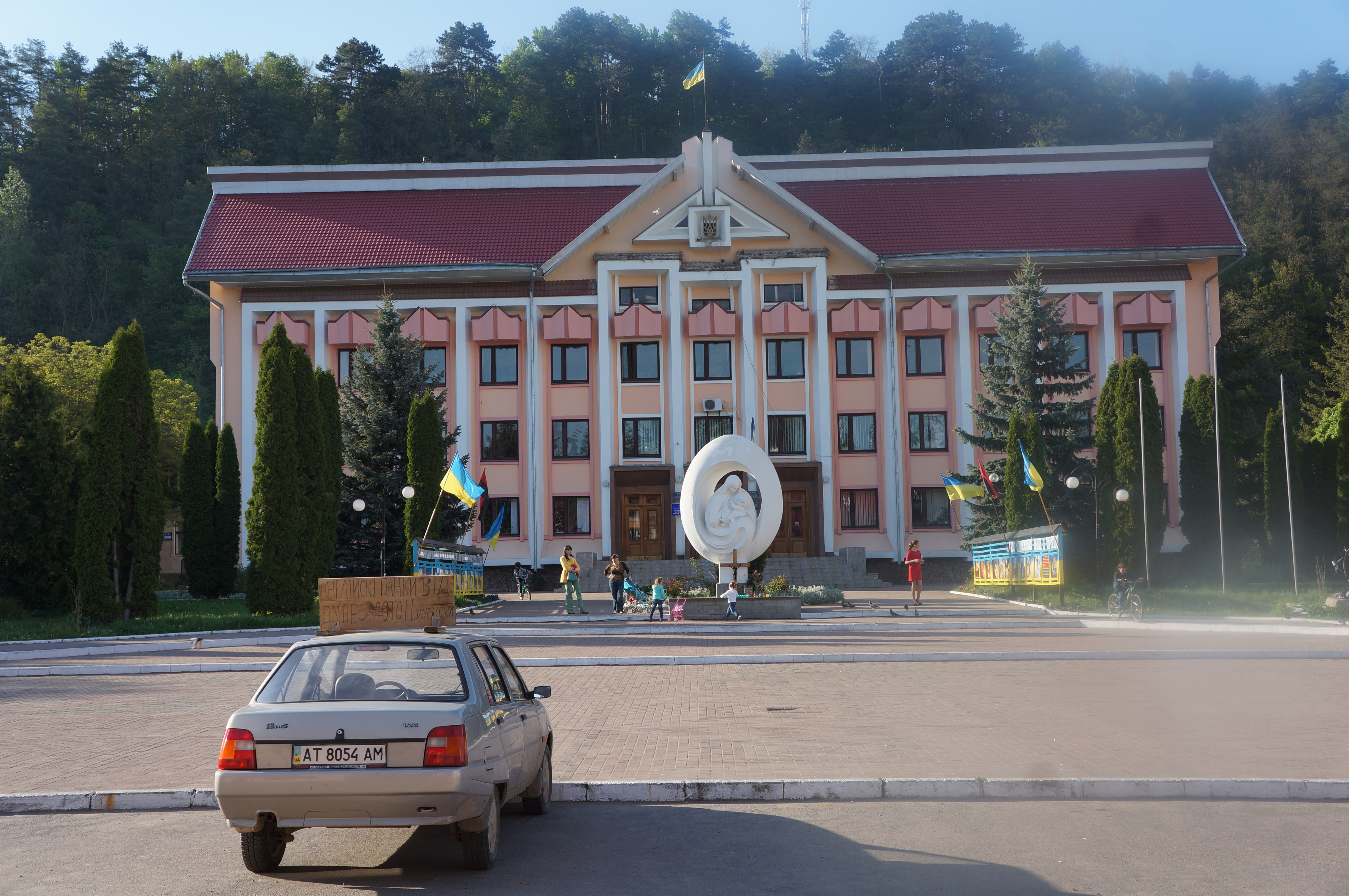 Kosiv City Hall